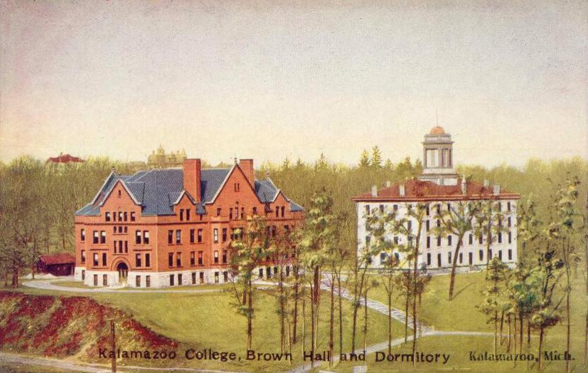 Brown Hall and Dormitory, Kalamazoo College, Kalamazoo, Michigan; from a 1906 postcard published by The Star Paper Company, Kalamazoo, Michigan.